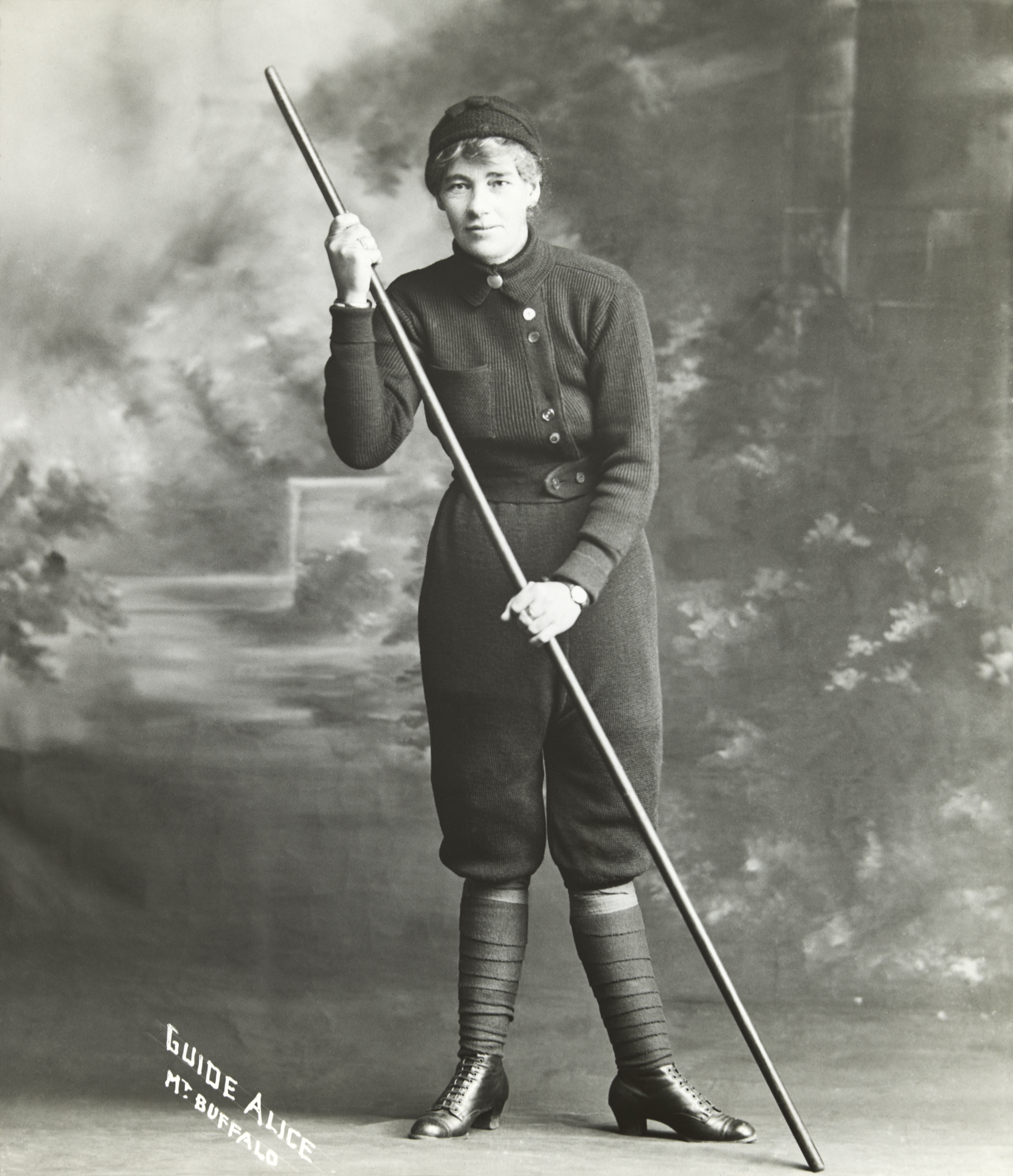 Portrait of Alice Manfield (Guide Alice) (1878-1960), mountain guide, naturalist, chalet owner, photographer, and early feminist figure based at Mt Buffalo, Victoria, Australia. In this image Alice is wearing custom made woollen clothing for hiking in the mountains and holding a long walking staff. Written on image lower left: "Guide Alice, Mt. Buffalo". Converted to digital from transparency: glass lantern slide, 8.5 cm x 8.5 cm.